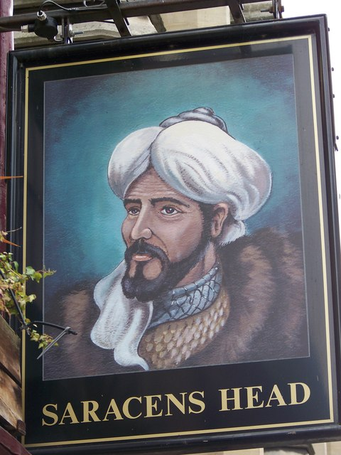 Sign for the Saracens Head, Bath The meaning of this sign is tied up with the religious fervour for the crusaders and the Knights of St John of Jerusalem.